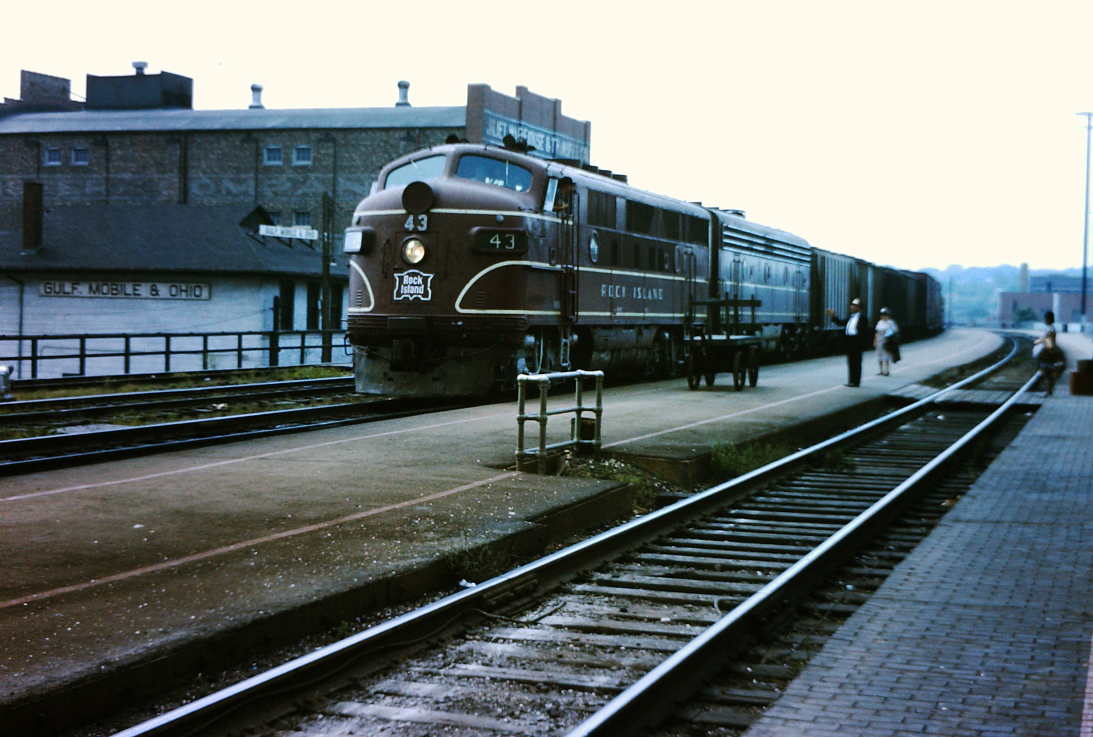 A Rock Island freight at Joliet, Illinois. The train is led by EMD F2 #43.